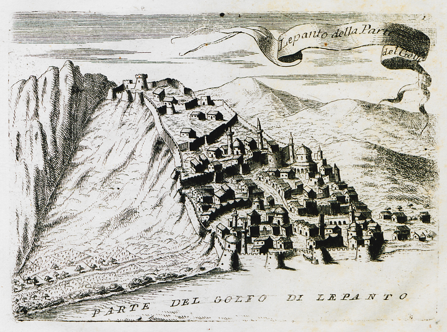 Vincenzo Coronelli. Morea, Negroponte & adiacenze, Venice, ca. 1708